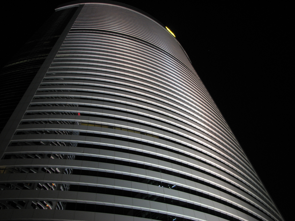 Exterior view of Island Shangri-La, Hong Kong.